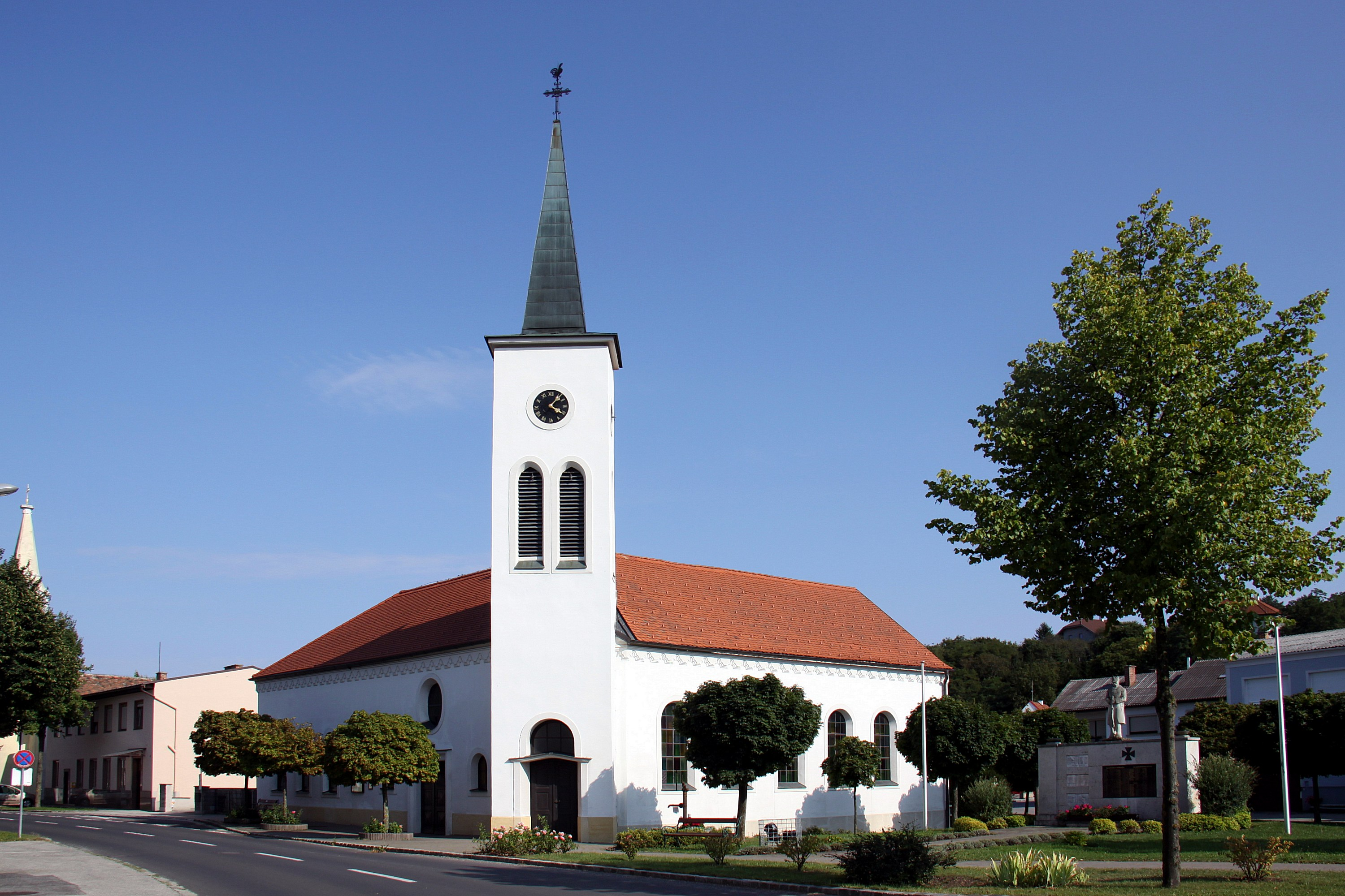 Evangelic parish church - Loipersbach im Burgenland Object location47° 41′ 40.94″ N, 16° 28′ 26.16″ E